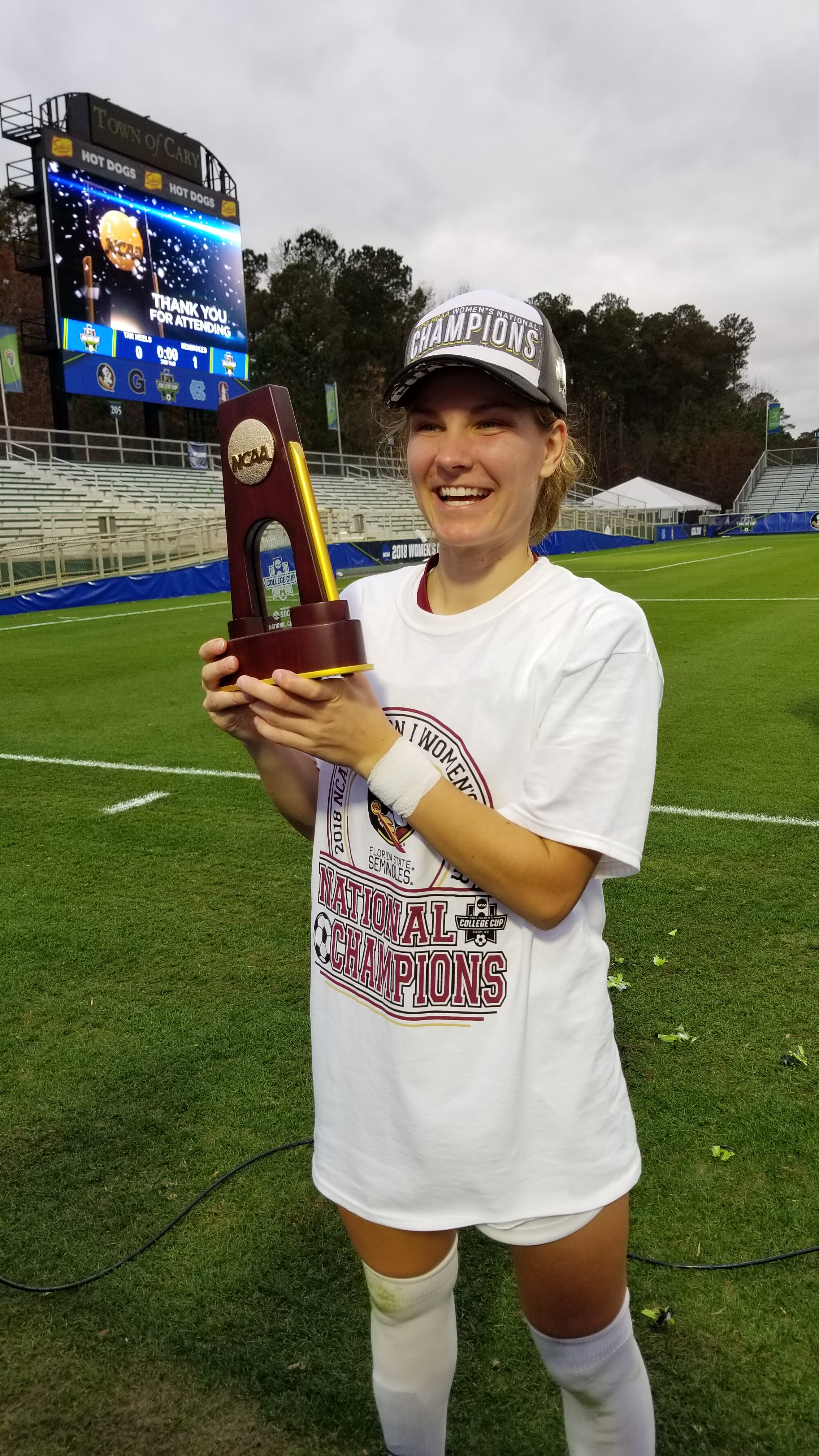 Natalia Kuikka celebrating after winning the 2018 NCAA National Championships as captain of Florida State University.